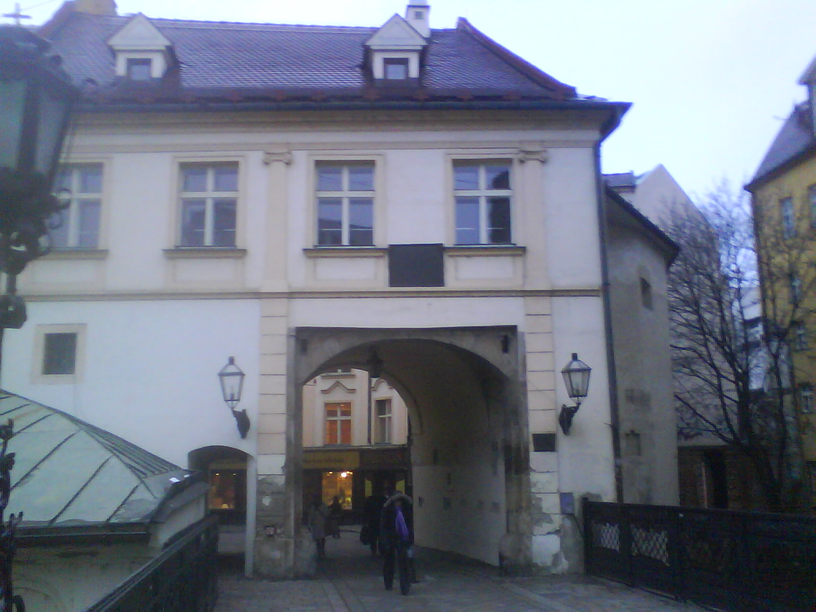 Barbican above the Bratislava Water Moat belonging to the Michael's Gate, the only still standing city gate of Bratislava, Slovakia